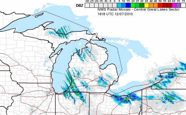 radar picture of snowsquall multi-day event around the Great Lakes